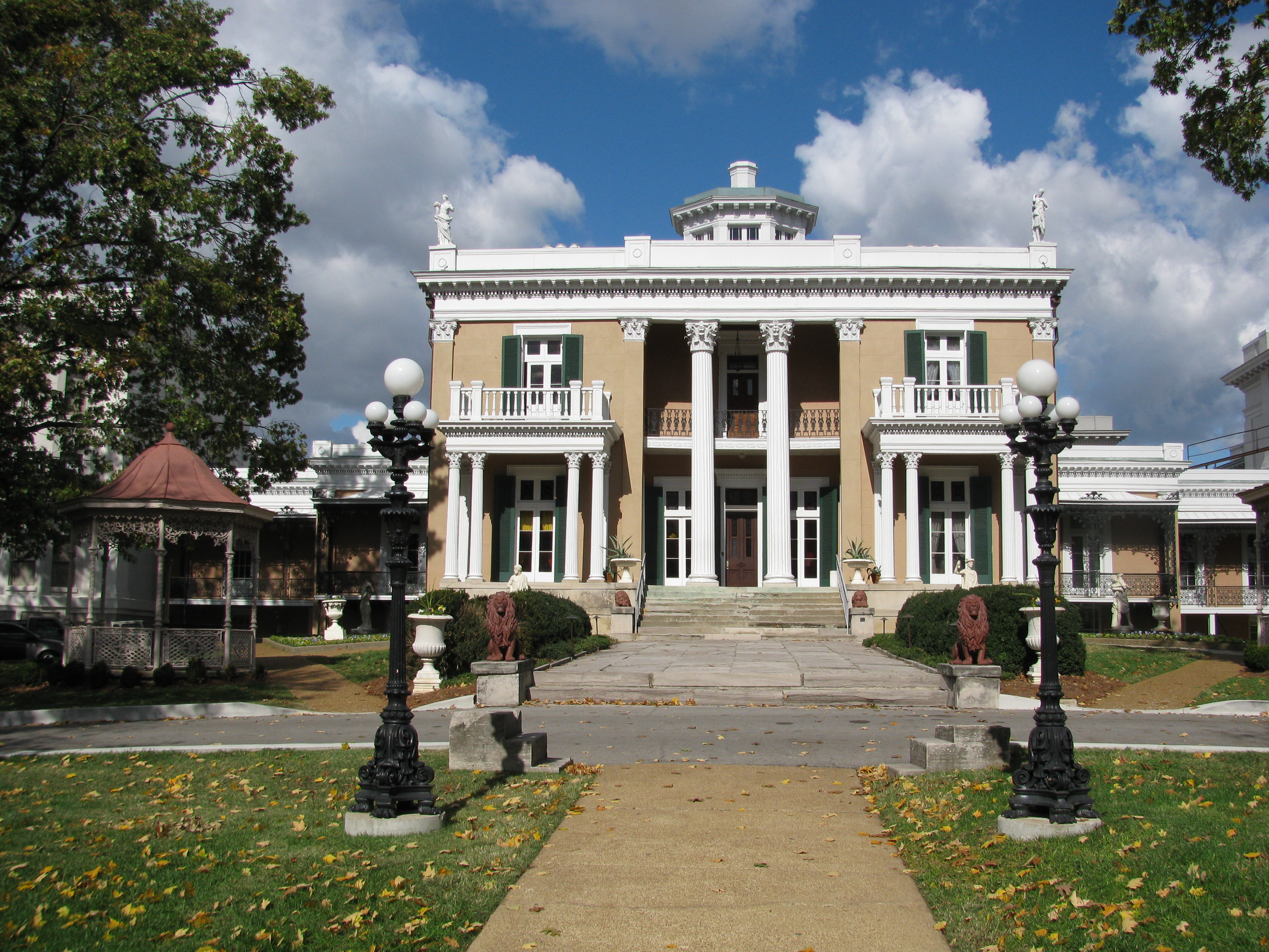 I (Irishjames2909) am the author of this photo.